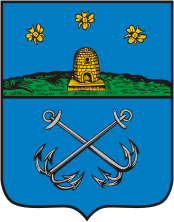 Morshansk (Tambov oblast), coat of arms (1781)